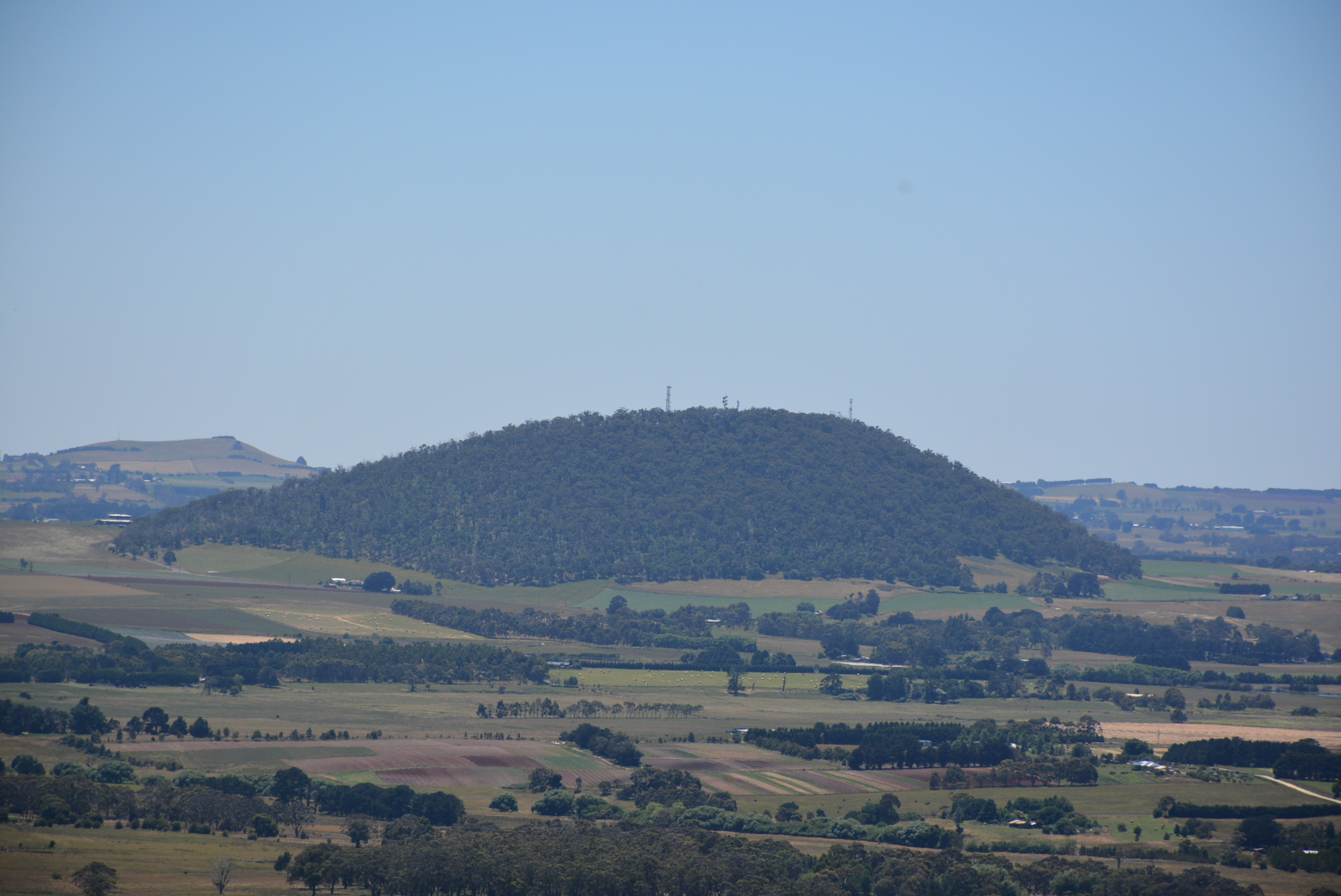 Mount Warrenheip, near Ballarat, Victoria, Australia, as seen from Mount Buninyong. Both mountains are dormant volcanoes